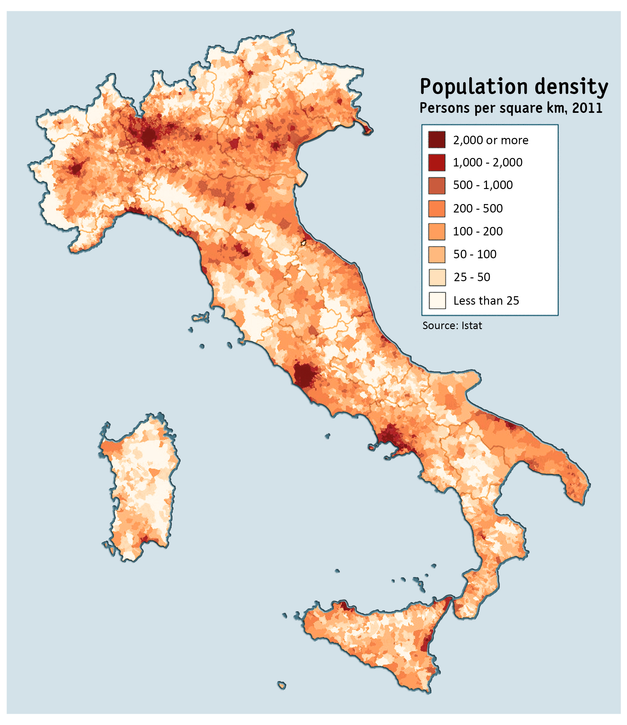 Population density in Italy according to the 2011 census by Istat (Istituto Nazionale di Statistica).